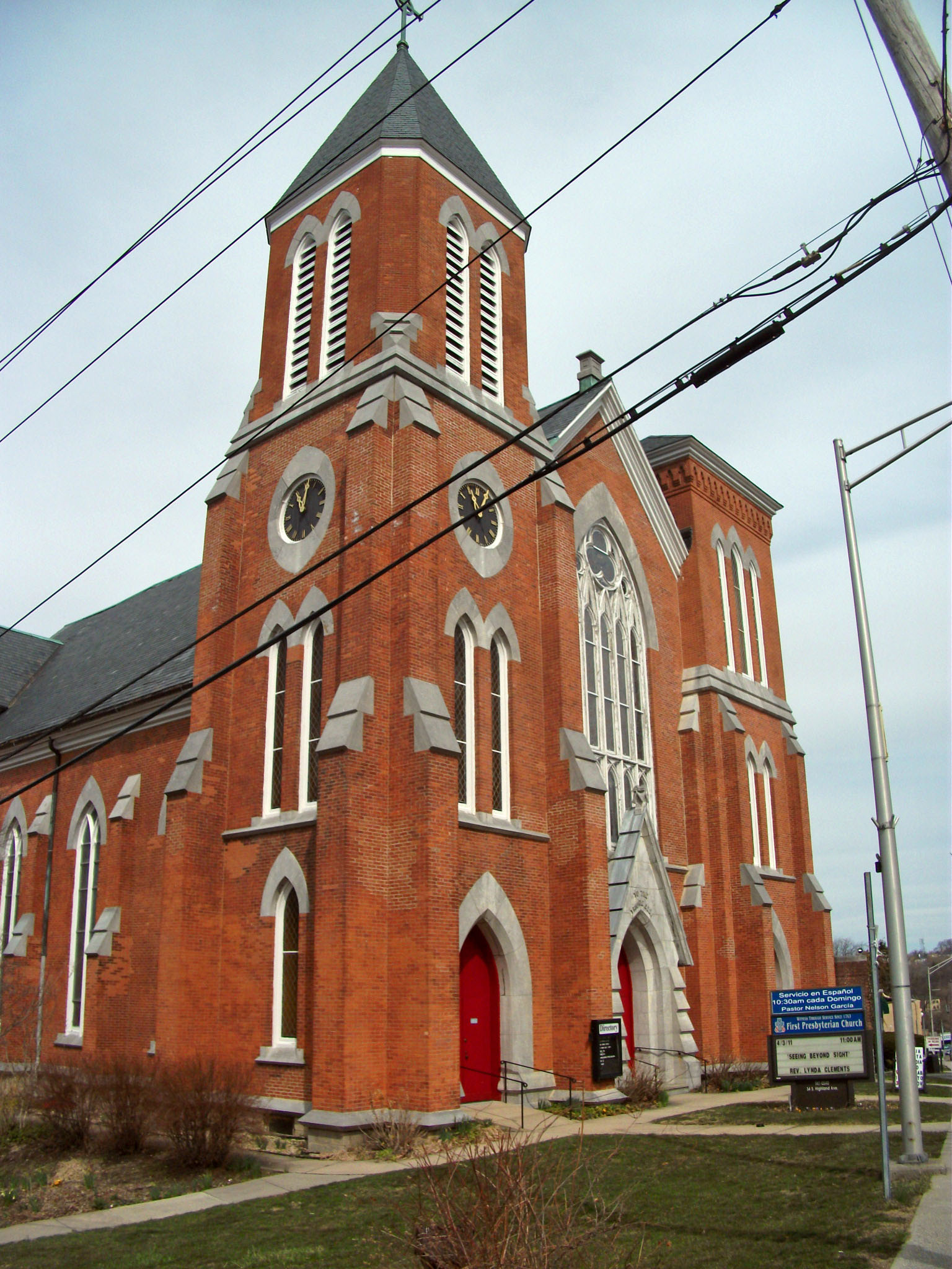 First Presbyterian Church in Ossining, NY, a contributing property to the Downtown Ossining Historic District